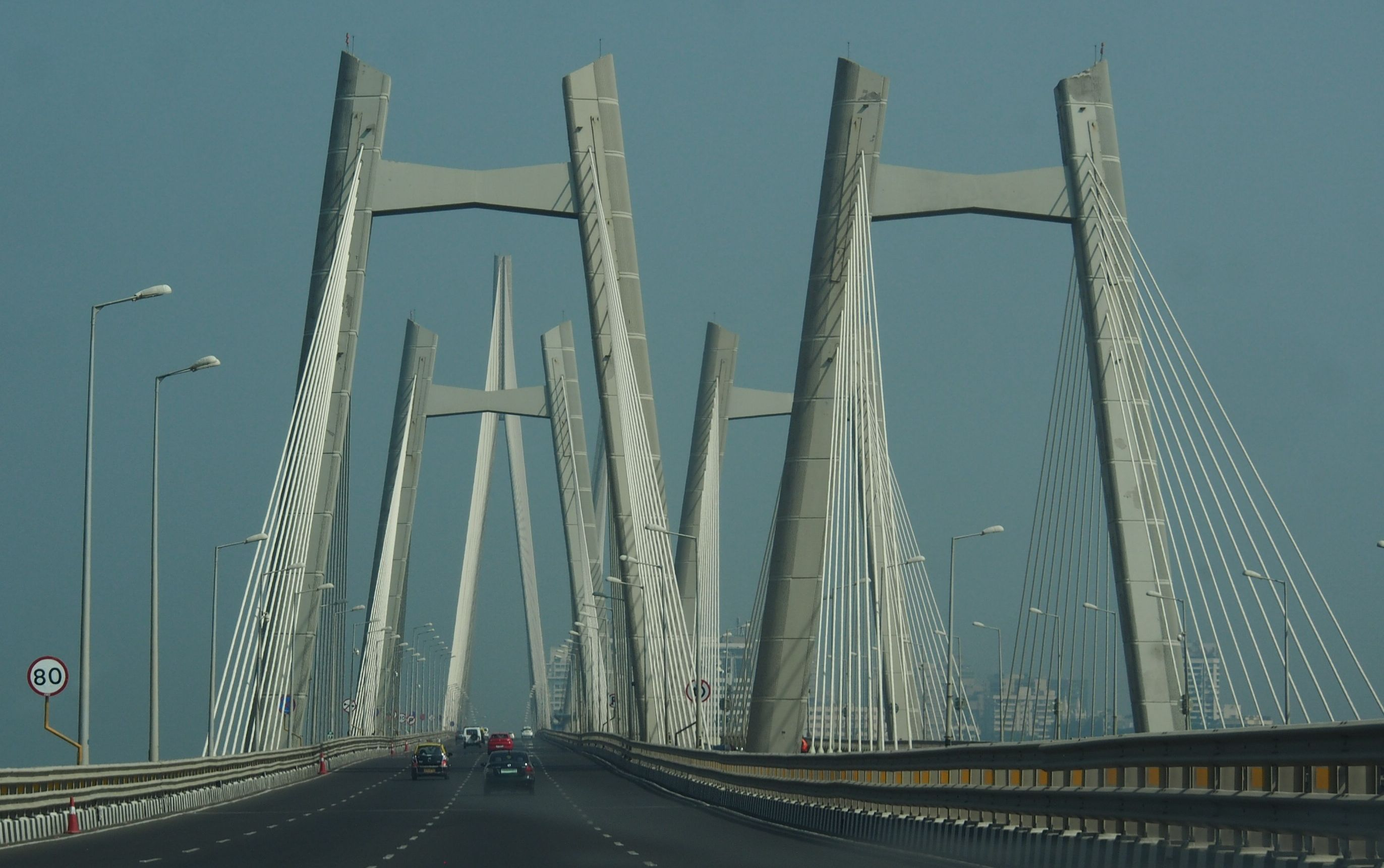 Rajiv Gandhi Sea LinkT owards Bandra